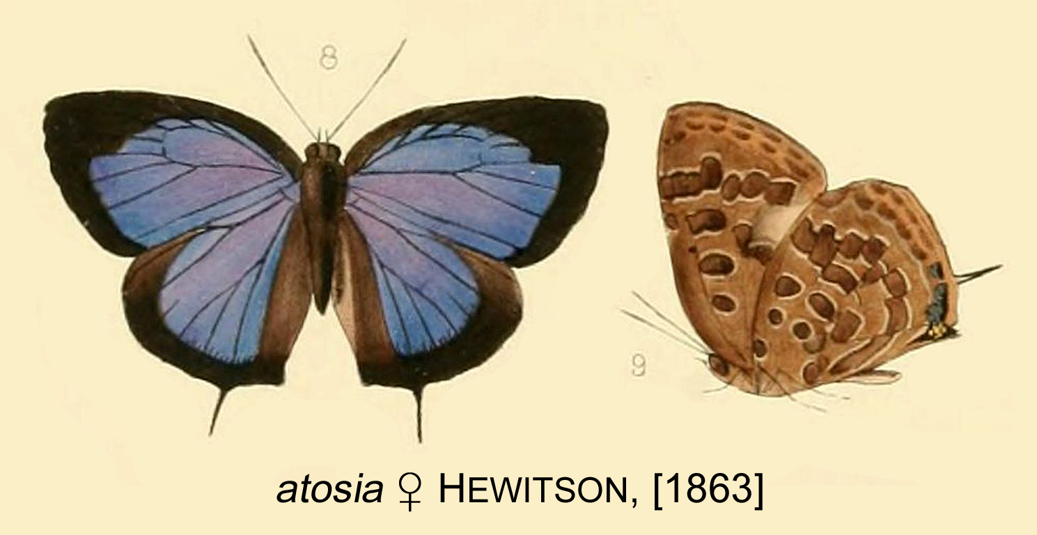 Arhopala atosia, female, Sumatra, from original description.